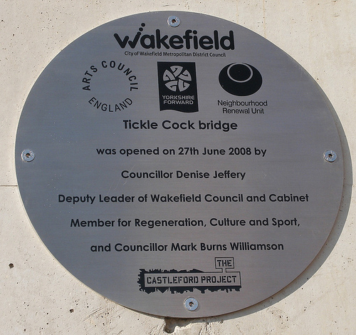 Plaque on Tickle Cock Bridge, Castleford, England.